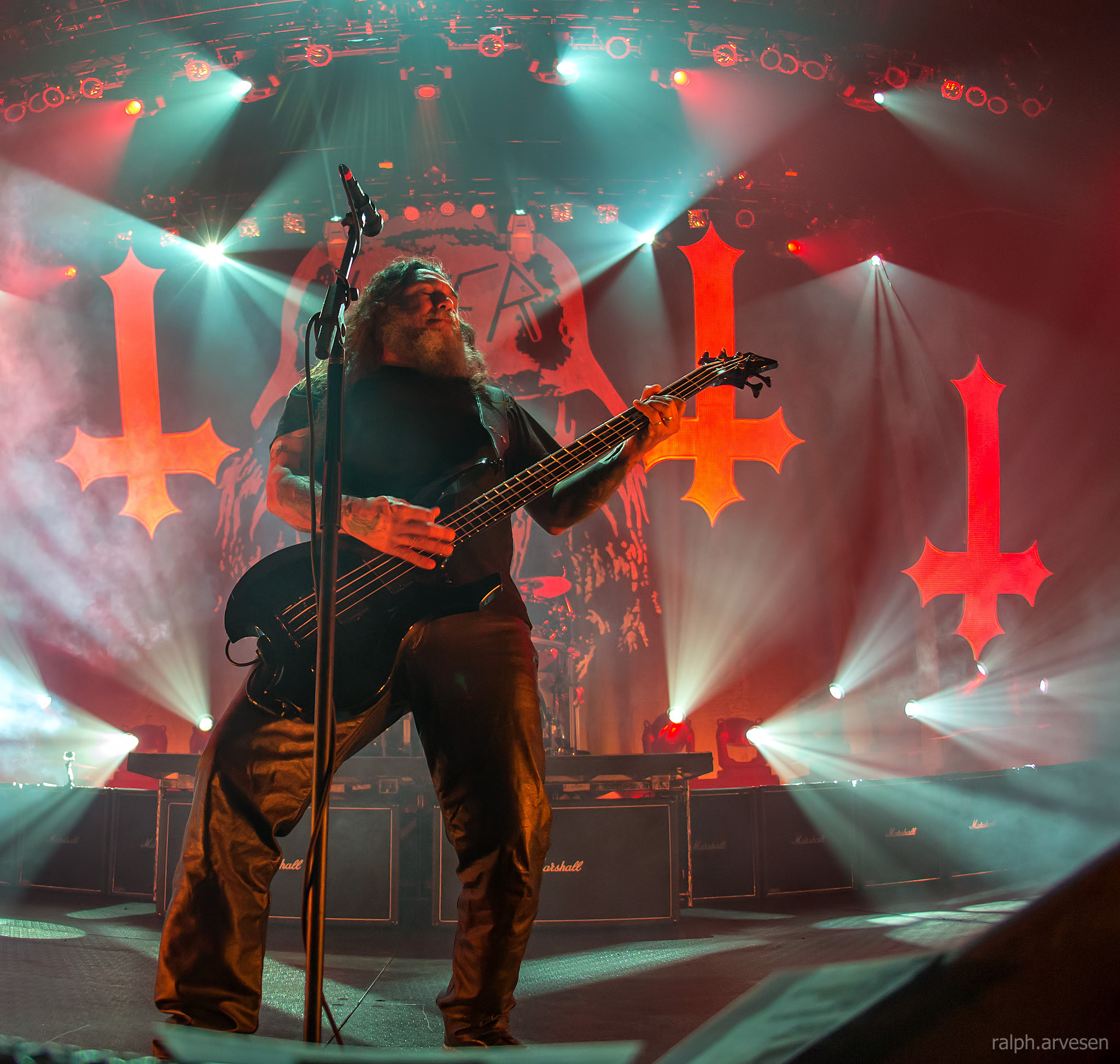 Araya in Austin, Texas (2014)